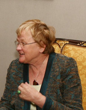 Ene Ergma, Speaker of Riigikogu